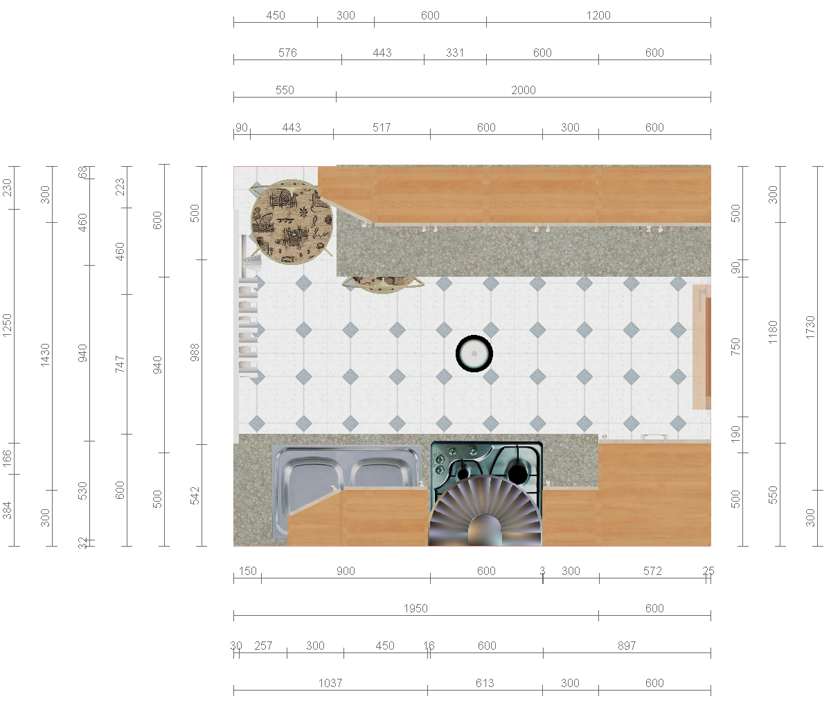 A small kitchen - technical drawing.